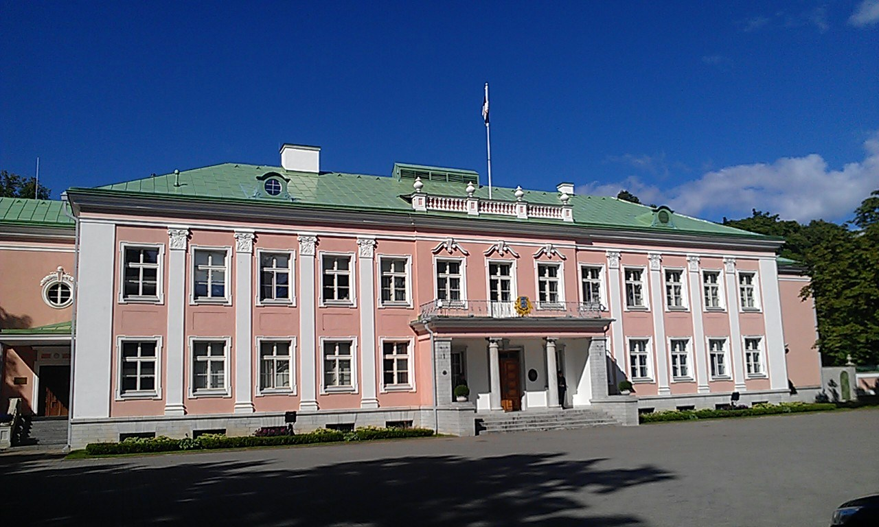 The Presidential Palace of Estonia, adjacent to Kadriorg Palace in Tallinn.